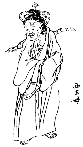 Xi Wangmu (西王母), mythical Chinese creature, from the Qing edition of the Shanhaijing.